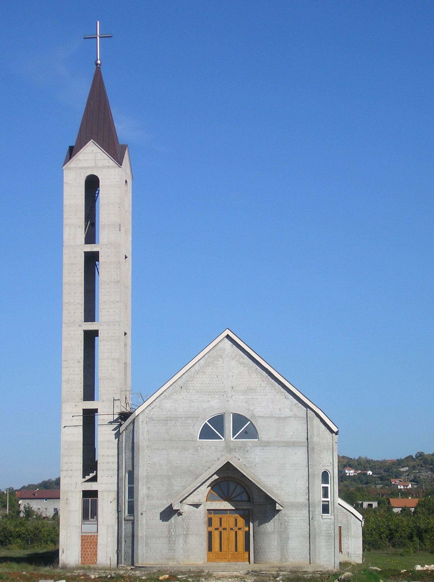 Holy Spirit church, Bobanovo Selo (Čapljina), BiH